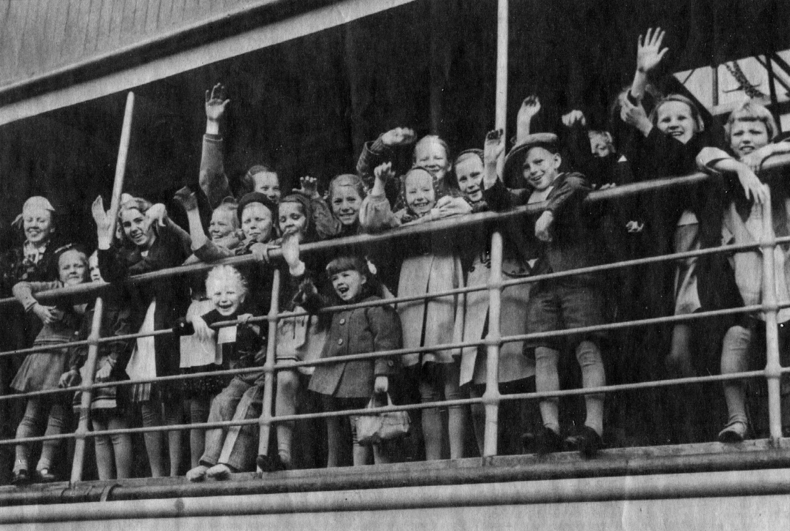 Finnish war children aboard Arcturus, en route to Sweden in June, 1941.